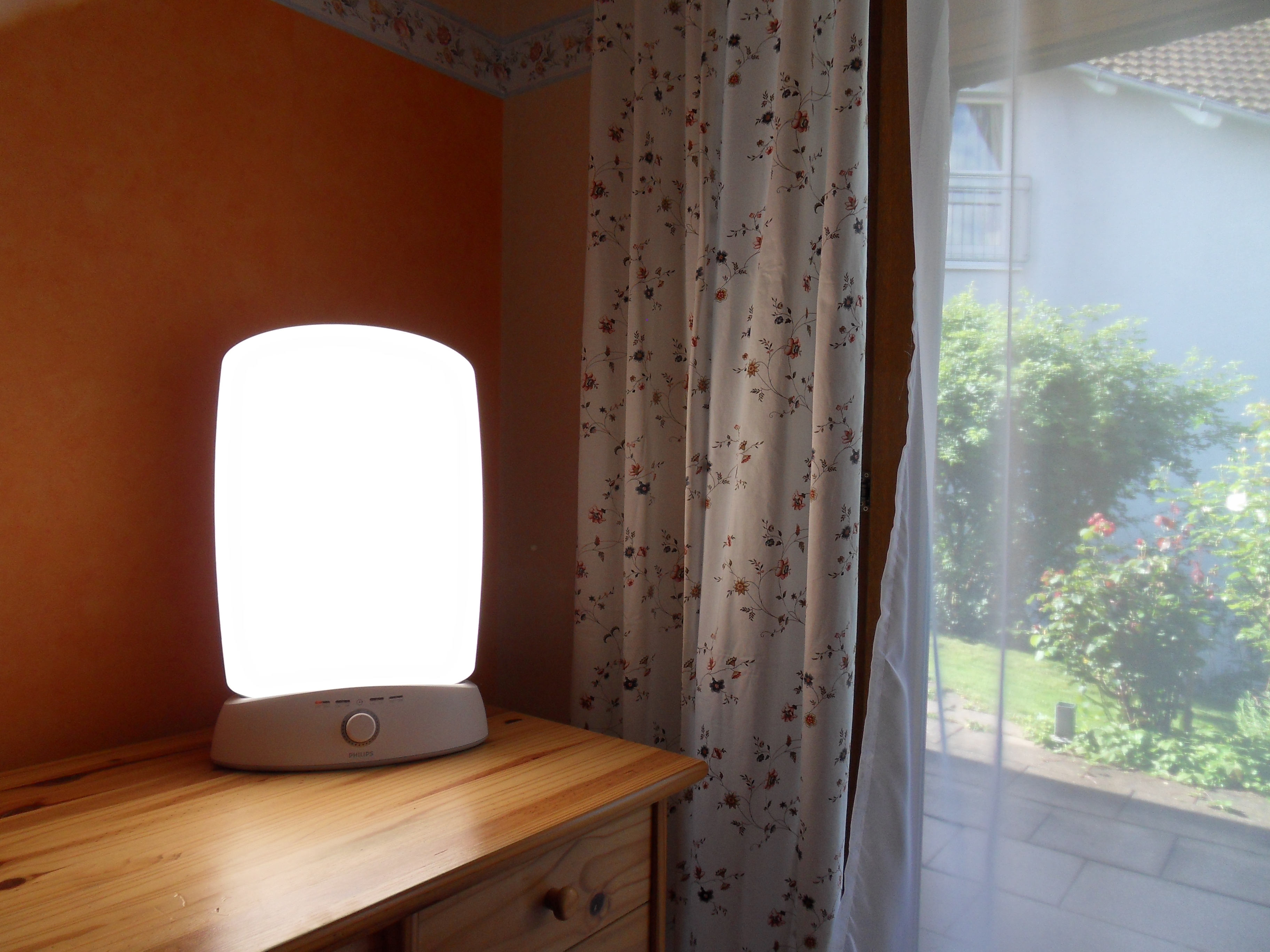 Light therapie lamp Philips HF3319/01 Energy Light. Light intensity compared to indirect daylight in the shade, filtered through white curtains (circa 11.00 a.m.).